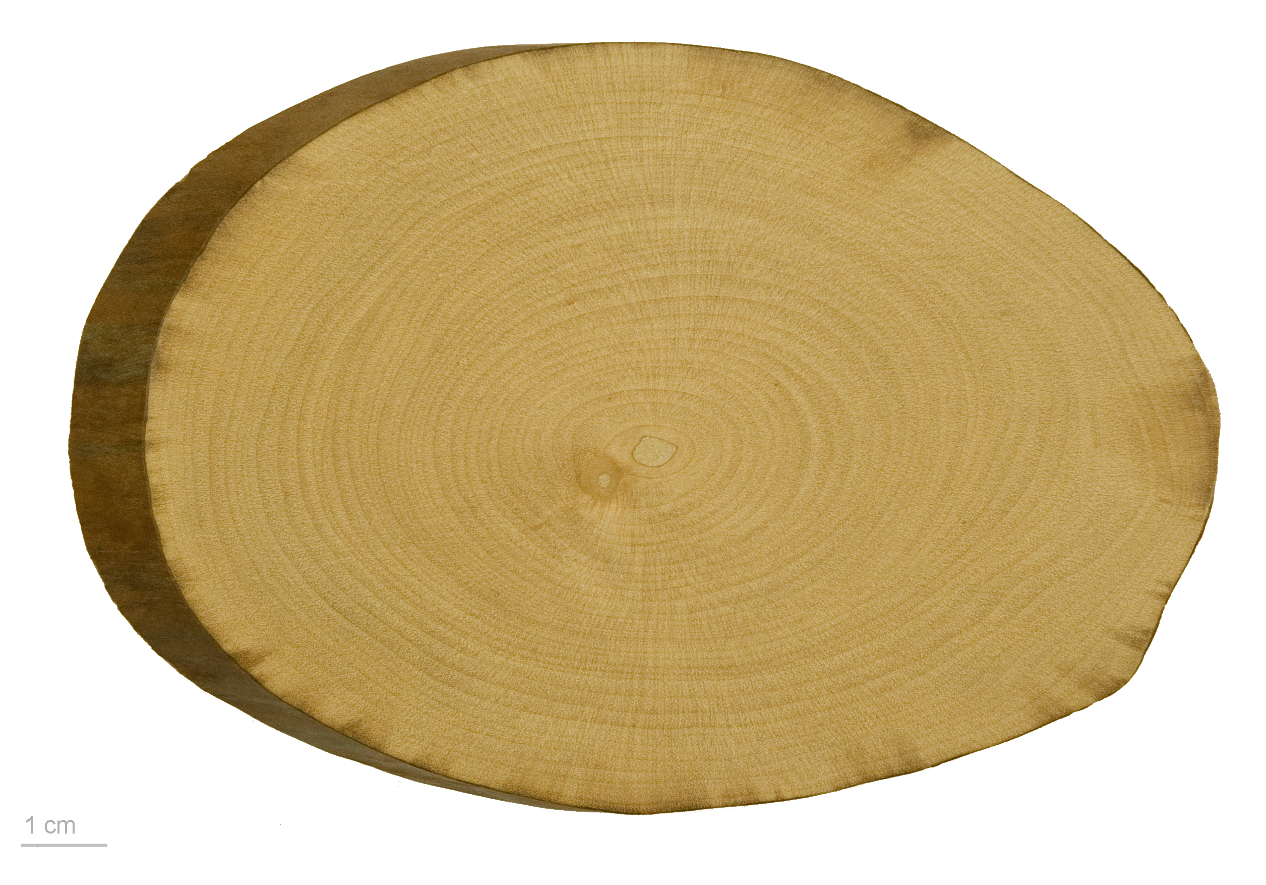 Crape myrtle , wood